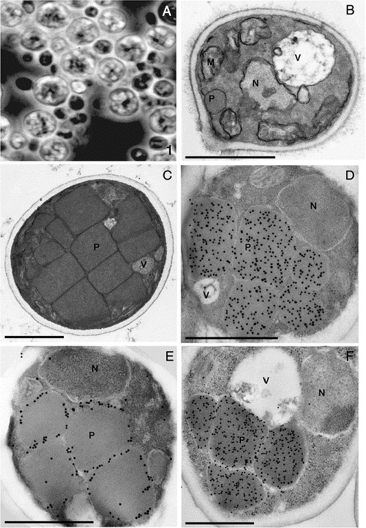 (A) shows a light micrograph of H. polymorpha cells that are grown in a methanol-limited chemostat culture. In the cells the cuboid inclusions that represent peroxisomes are evident. (B) shows an electron micrograph of the same organism, grown in batch culture on glucose. These cells contain only a single small peroxisome. (C) shows the morphology of peroxisomes in methanol-limited grown H. polymorpha. (D–F) Immunocytochemical localization of AO (D), CAT (E) and DHAS protein (F) in peroxisomes of cells grown in batch cultures on methanol. Note that DHAS is randomly present over the organelle whereas catalase is predominantly located at the edges of the organelle. For immunocytochemistry specific polyclonal antibodies against the three indicated proteins are used. M—mitochondrion; N—nucleus; P—peroxisome; V—vacuole. The bar represents 1 μm.